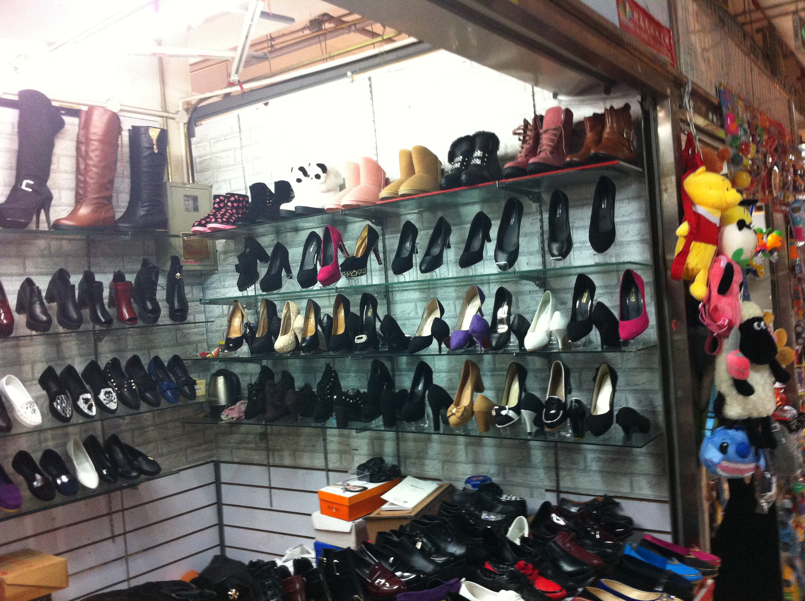 One booth selling shoes in Beijing Zoo Market, commonly known as Dongpi (lit. Zoo Wholesale)... Mostly female shoes, more than half of which were high-heeled.